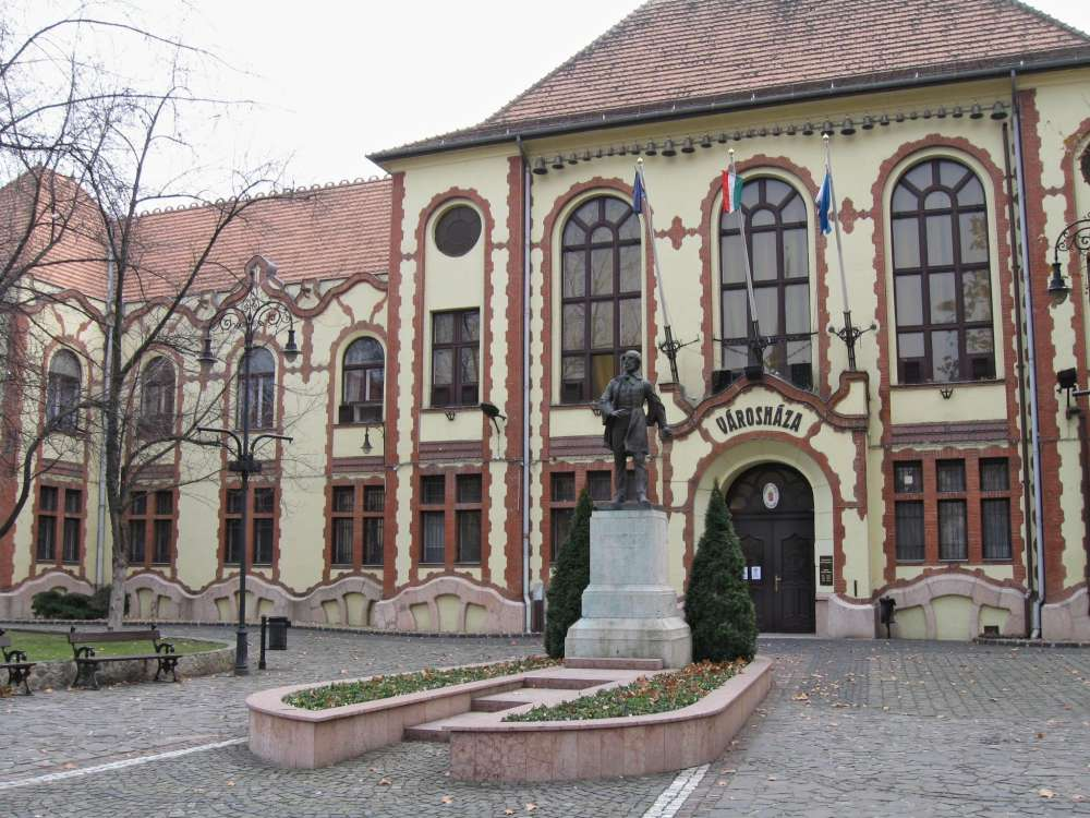 Pesterzsébet Town Hall - Budapest, 20. distr., Kossuth Lajos square 1., built in 1906. In front of it there is a sculpture of Lajos Kossuth, made by János Horvay and Richárd Füredi in 1903.